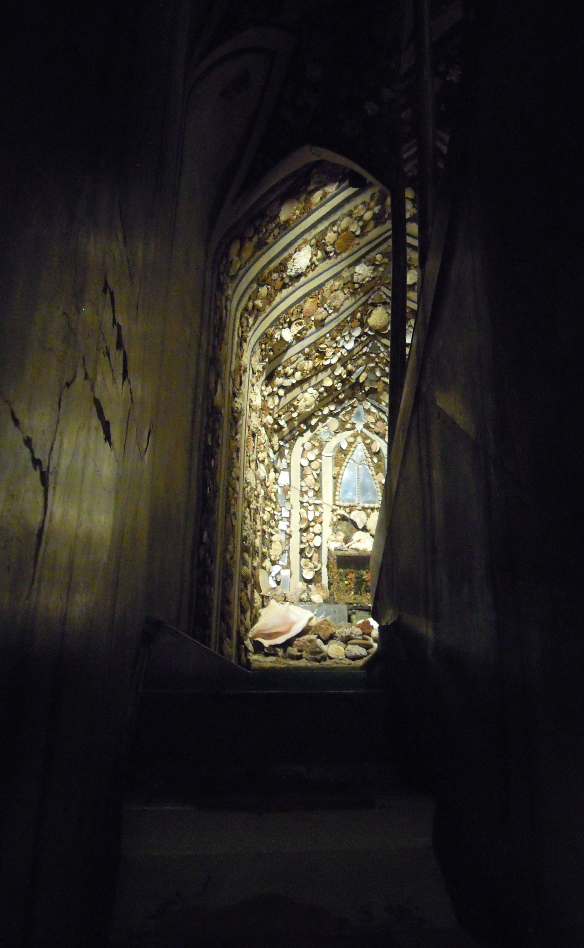 Staircase leading to the Shell Gallery on the third floor at A La Ronde. The Gallery is now closed to the public.